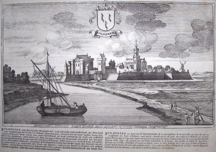 City of Purmerend